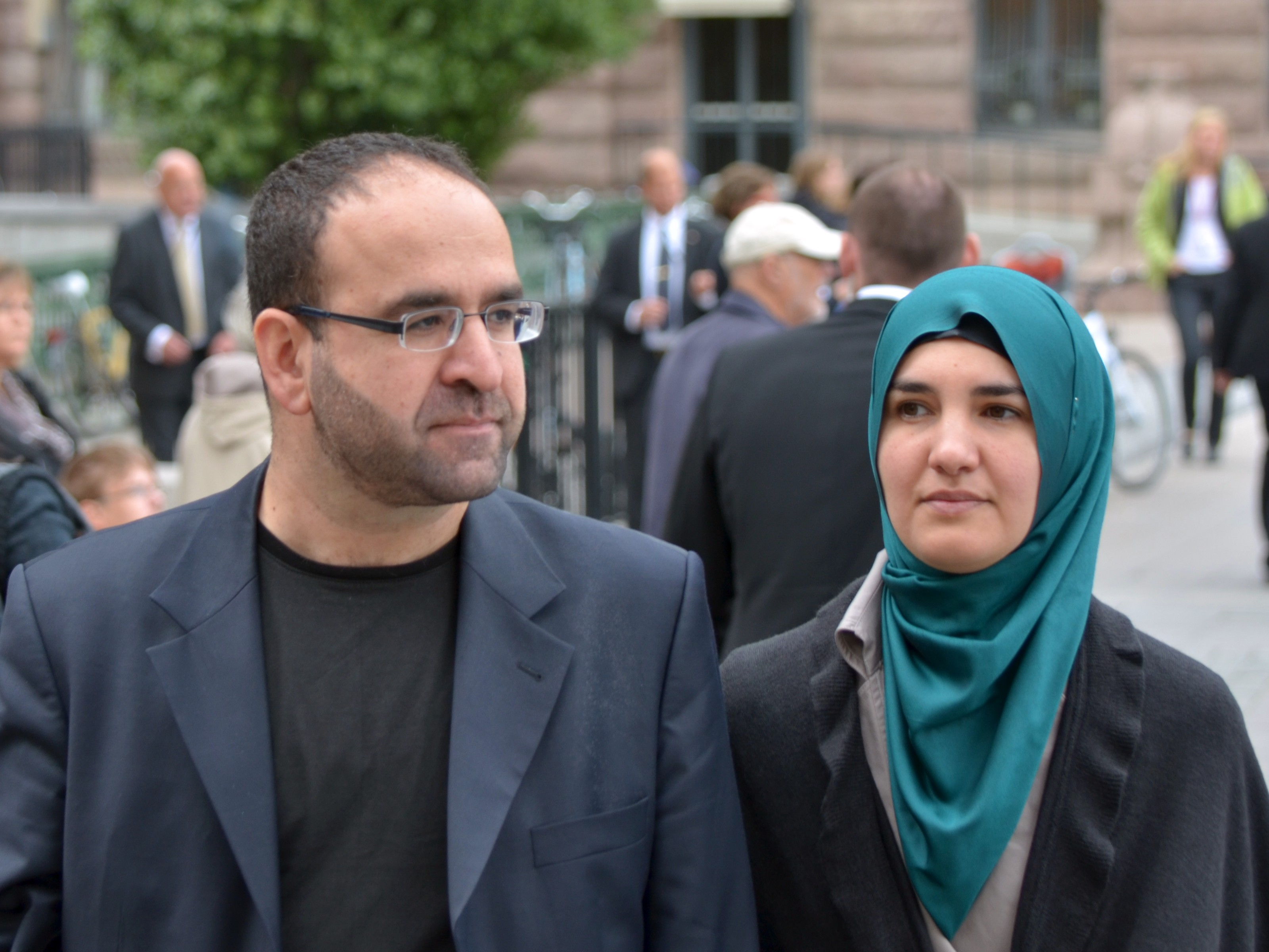 Mehmet Kaplan, member of the Riksdag for the Green Party, and his wife Feride Kaplan.